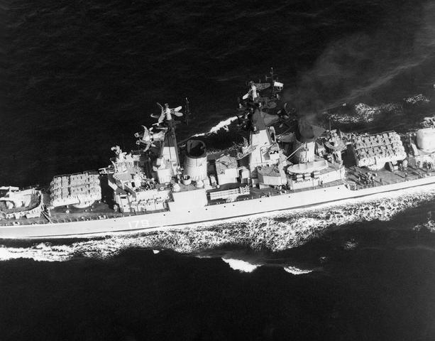 ID: DN-SN-86-04124 Service Depicted: Other Service An elevated port beam view of a Soviet Kynda class guided missile cruiser underway during NATO exercise Ocean Safari 85.